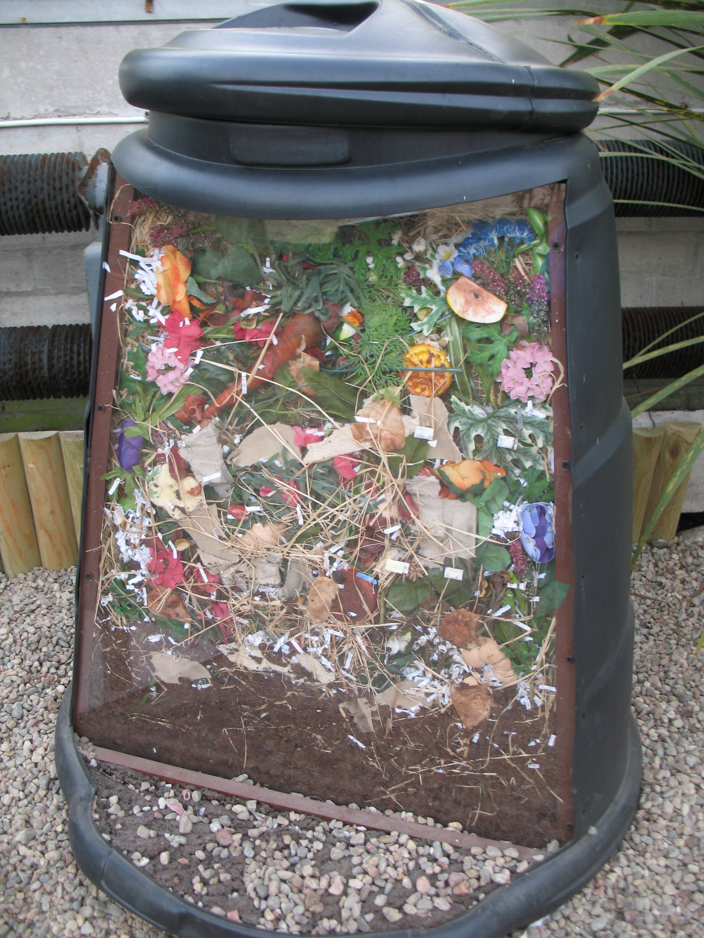 Cutway model of a domestic compost bin, photographed in Duthie Park Gardens, Aberdeen